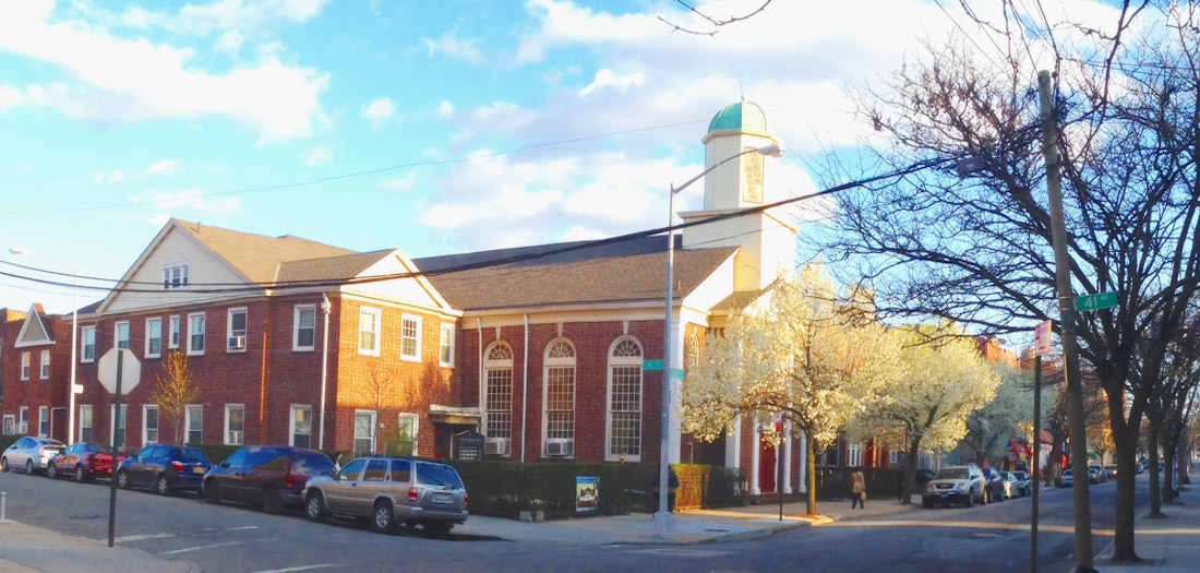 Woodside Community Church building.